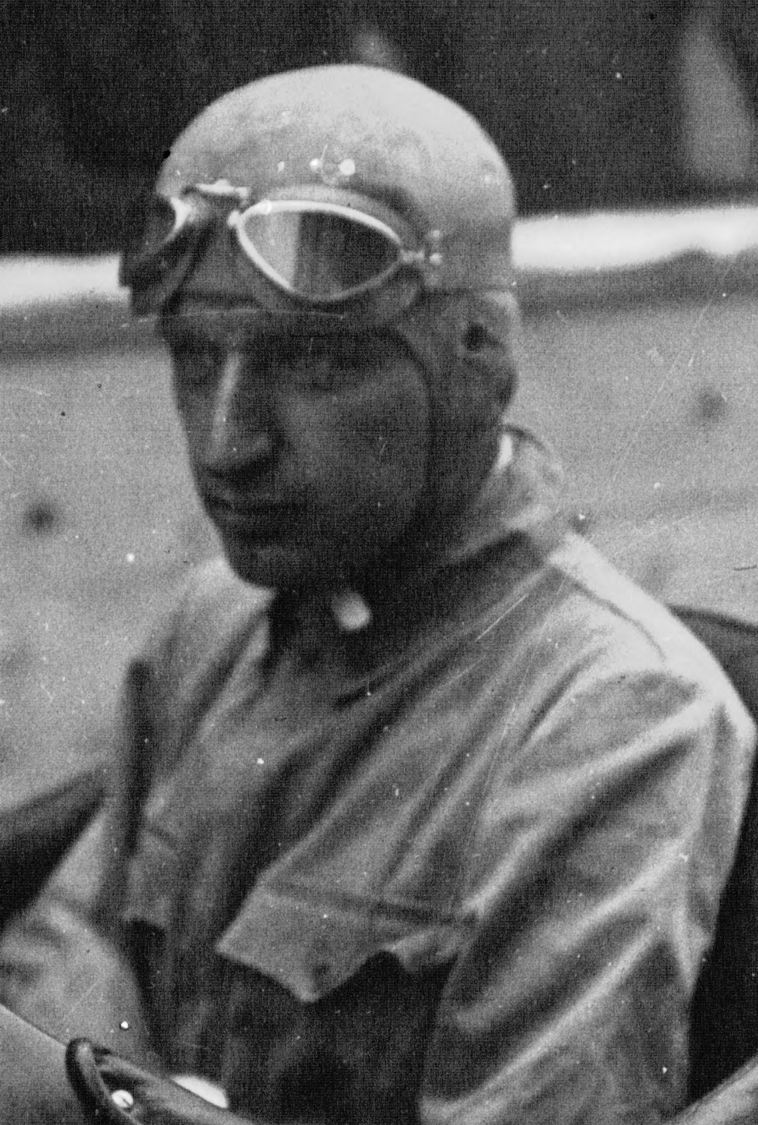 Carlo Felice Trossi at the 1934 Grand Prix automobile de Montreux with Scuderia Ferrari Alfa Romeo P3